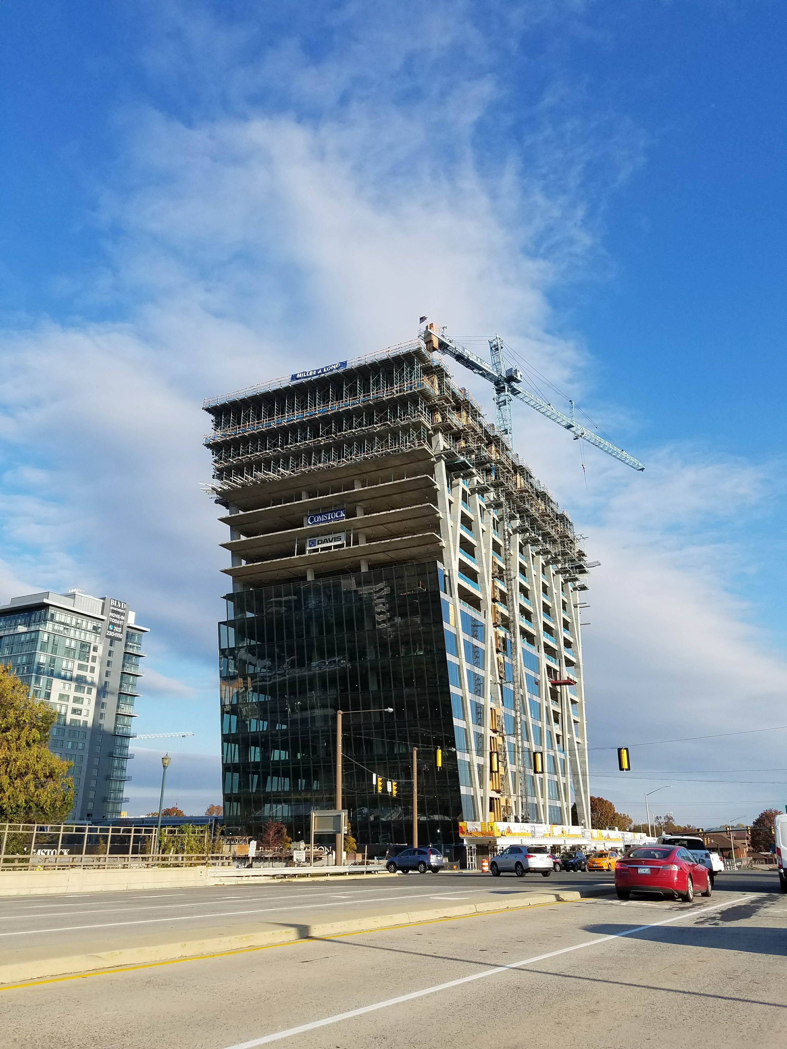 Helmut Jahn Building under construction.